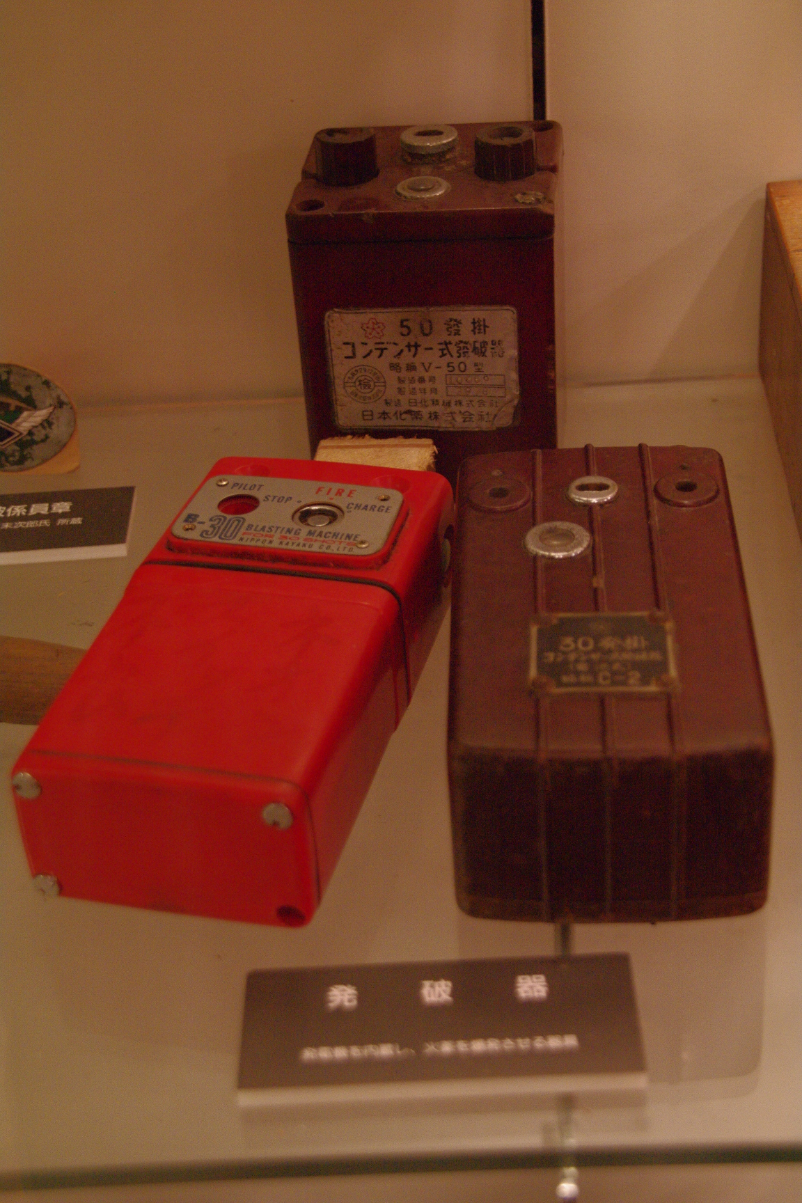 Blast switch box for caol mines.